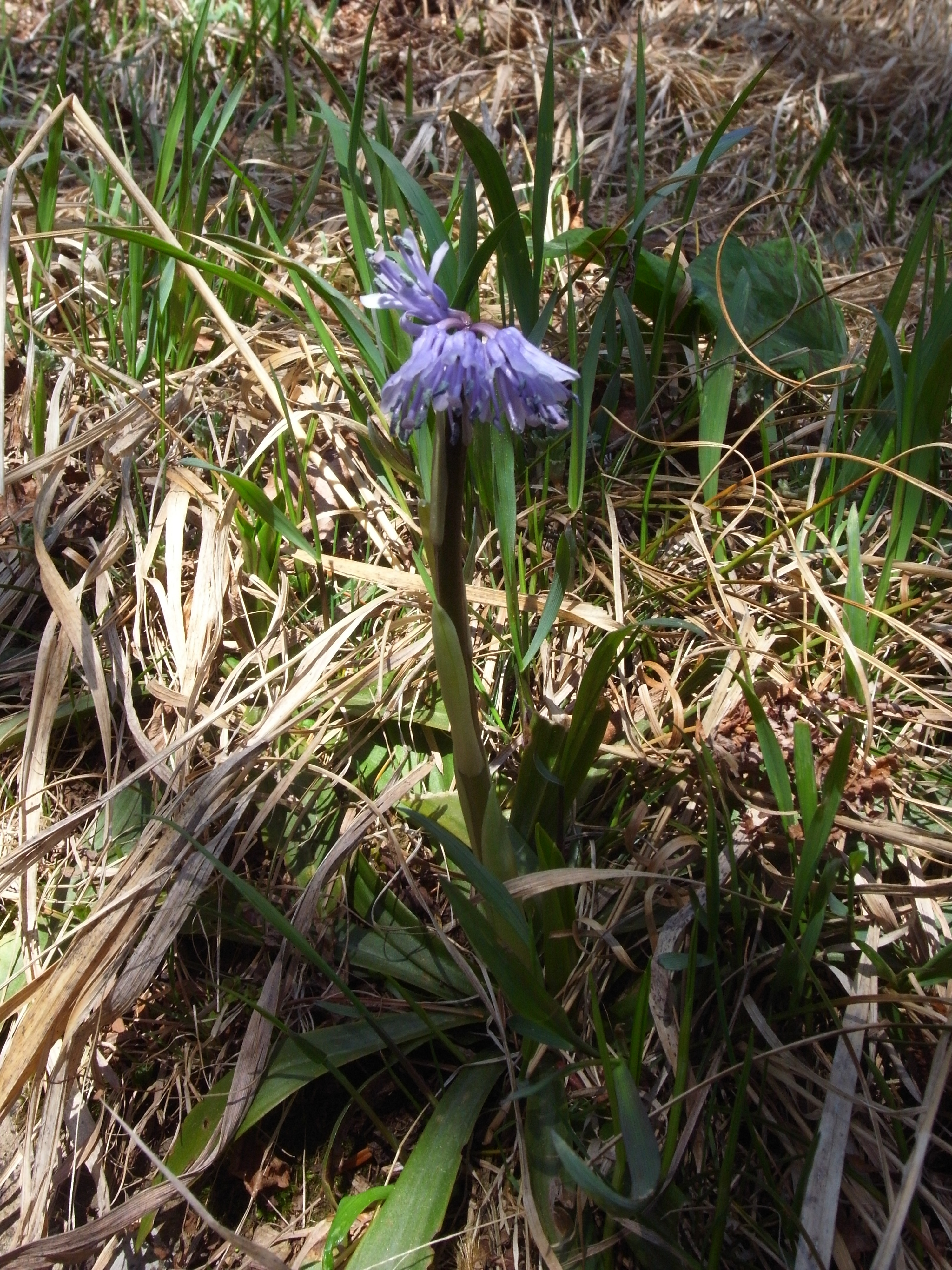 Heloniopsis koreana